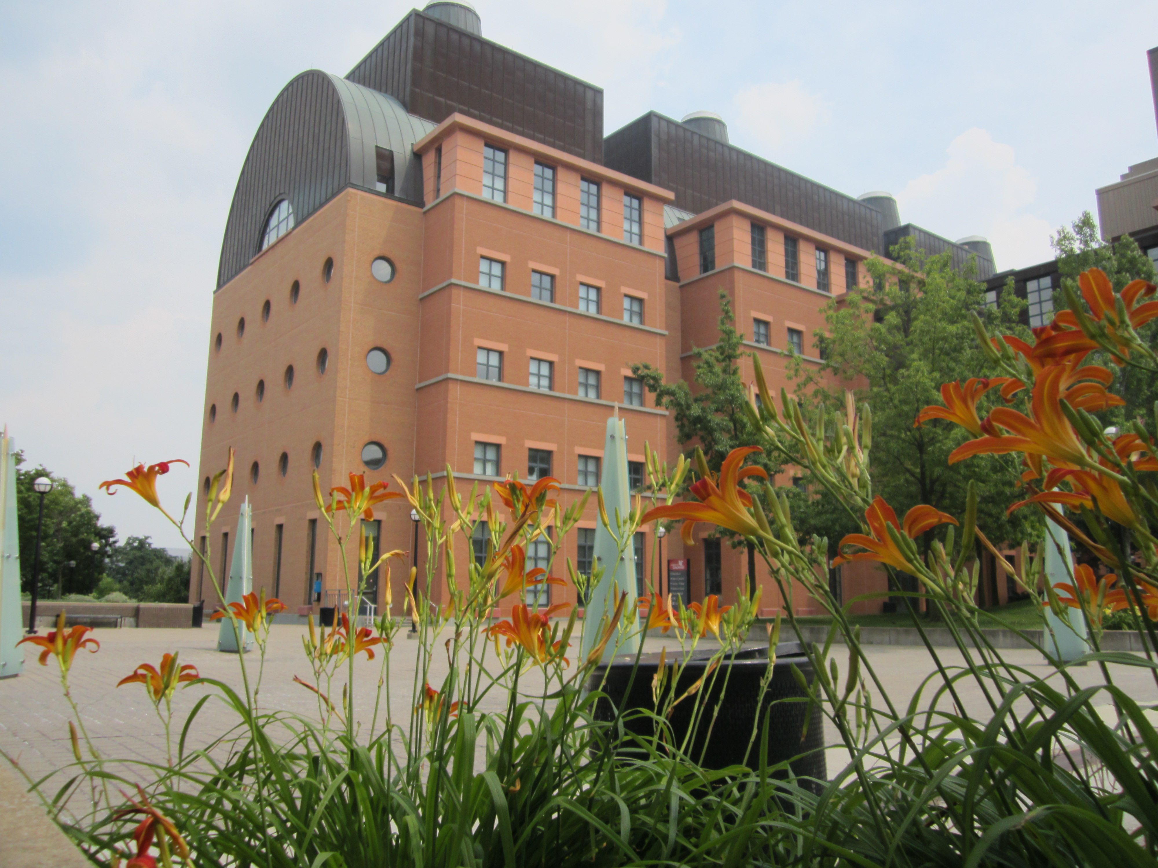 ERC at UC.